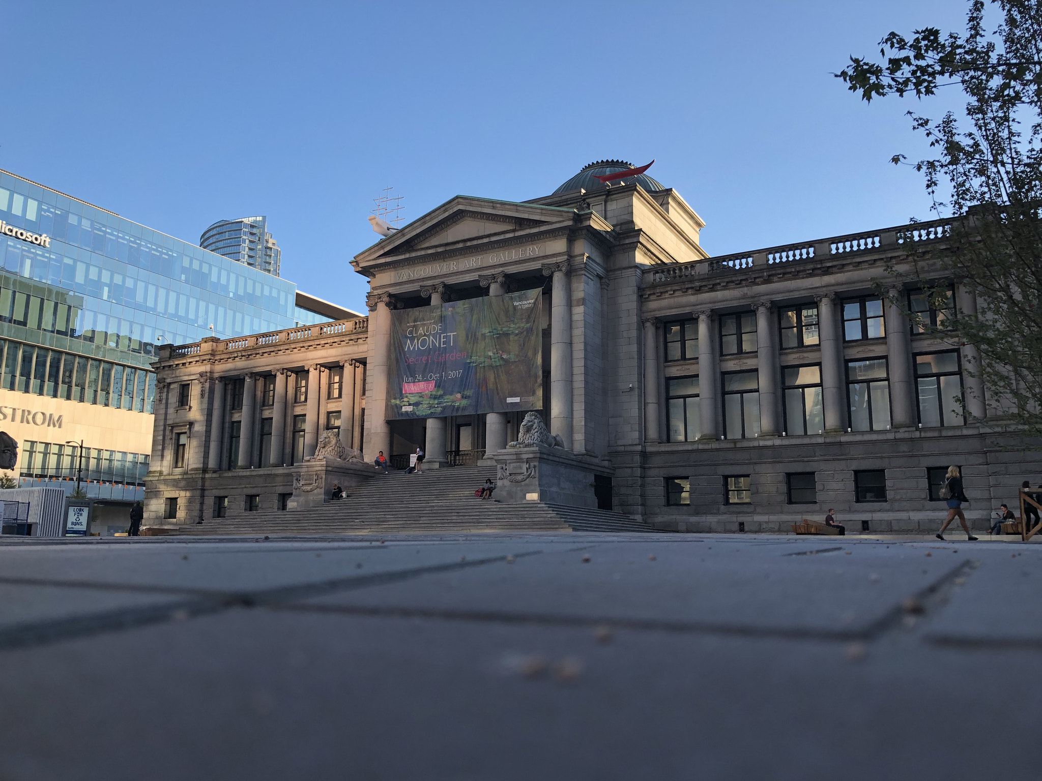 500px provided description: Shot this low-to-the-ground shot with my new phone while waiting for traffic to die down one evening. [#city ,#vancouver ,#architecture ,#blue sky ,#dusk ,#perspective ,#british columbia ,#art gallery ,#glass building ,#low to the ground]